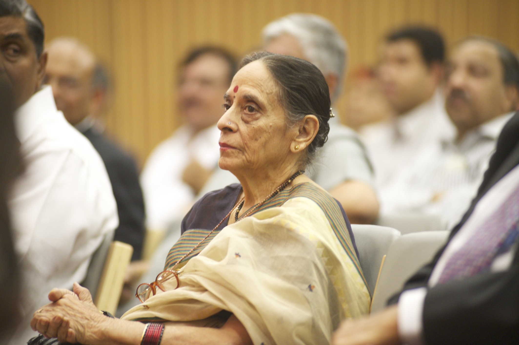 Leila Seth was the first woman judge on the Delhi High Court and also the first woman Chief Justice of a state high court.